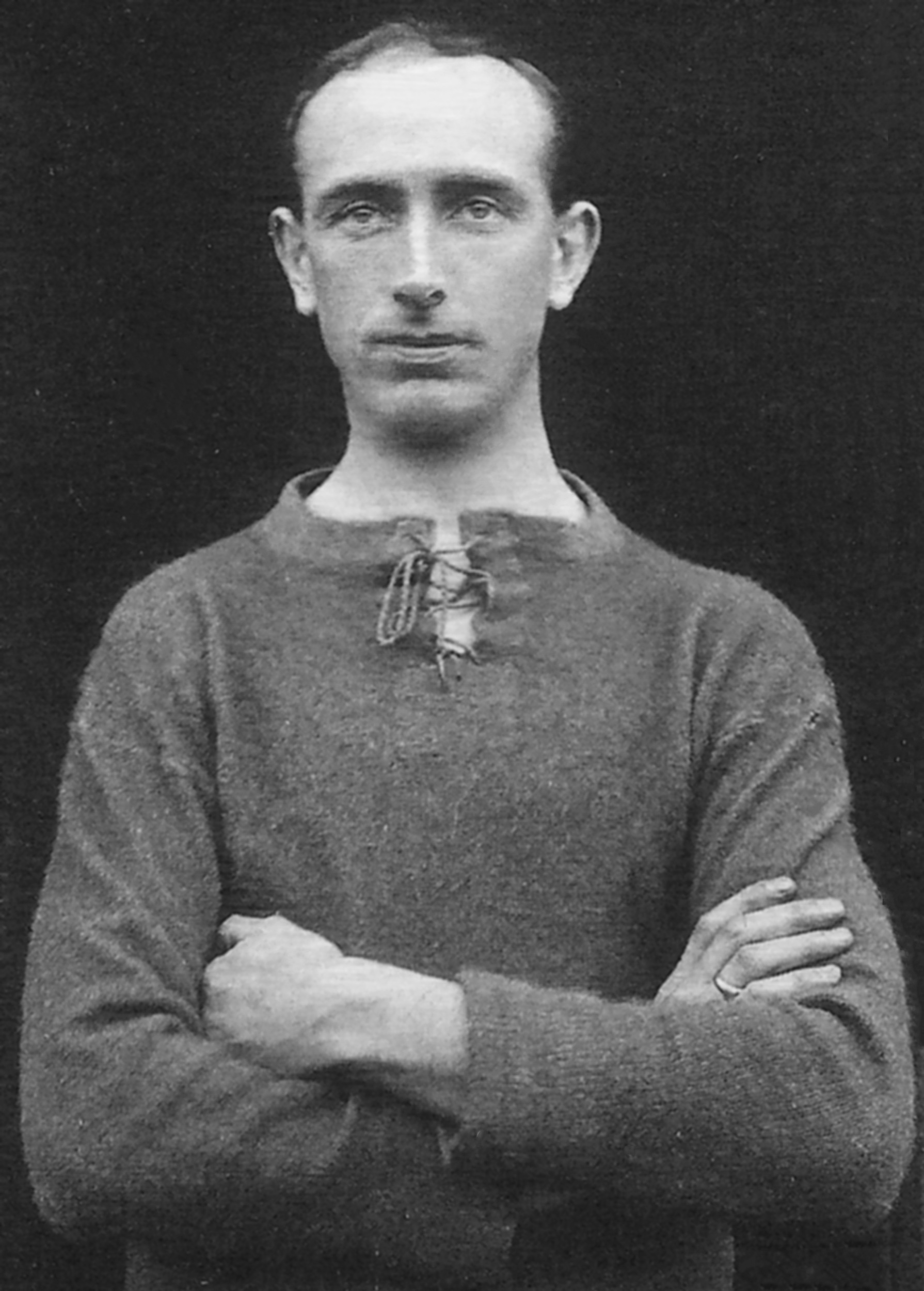 Tommy Stuart was Tranmere Rovers' regular left-back between 1921 and 1927, when he made 205 appearances and scored thirteen goals. Signed from Bootle Albion, he was to become one of hte stalwarts of the early league years, even though it is said he lacked the athleticism of his contemporaries. Three contemporary sources, written by Tranmere Rovers historians, contain this image: Bishop, Peter (1 November 1998) Tranmere Rovers Football Club, Images of England, Stroud: Tempus ISBN: 978-0752415055. Upton, Gilbert; Wilson, Steve (November 1997) Tranmere Rovers 1921–1997: A Complete Record ISBN: 978-0951864821. Upton, Gilbert; Wilson, Steve; Bishop, Peter (24 July 2009) Tranmere Rovers: The Complete Record, Breedon ISBN: 978-1859837115. Bishop (1998) states that its images appeared originally in the Birkenhead News or Liverpool Echo. None of the sources were found to contain any further details of the photograph's provenance.